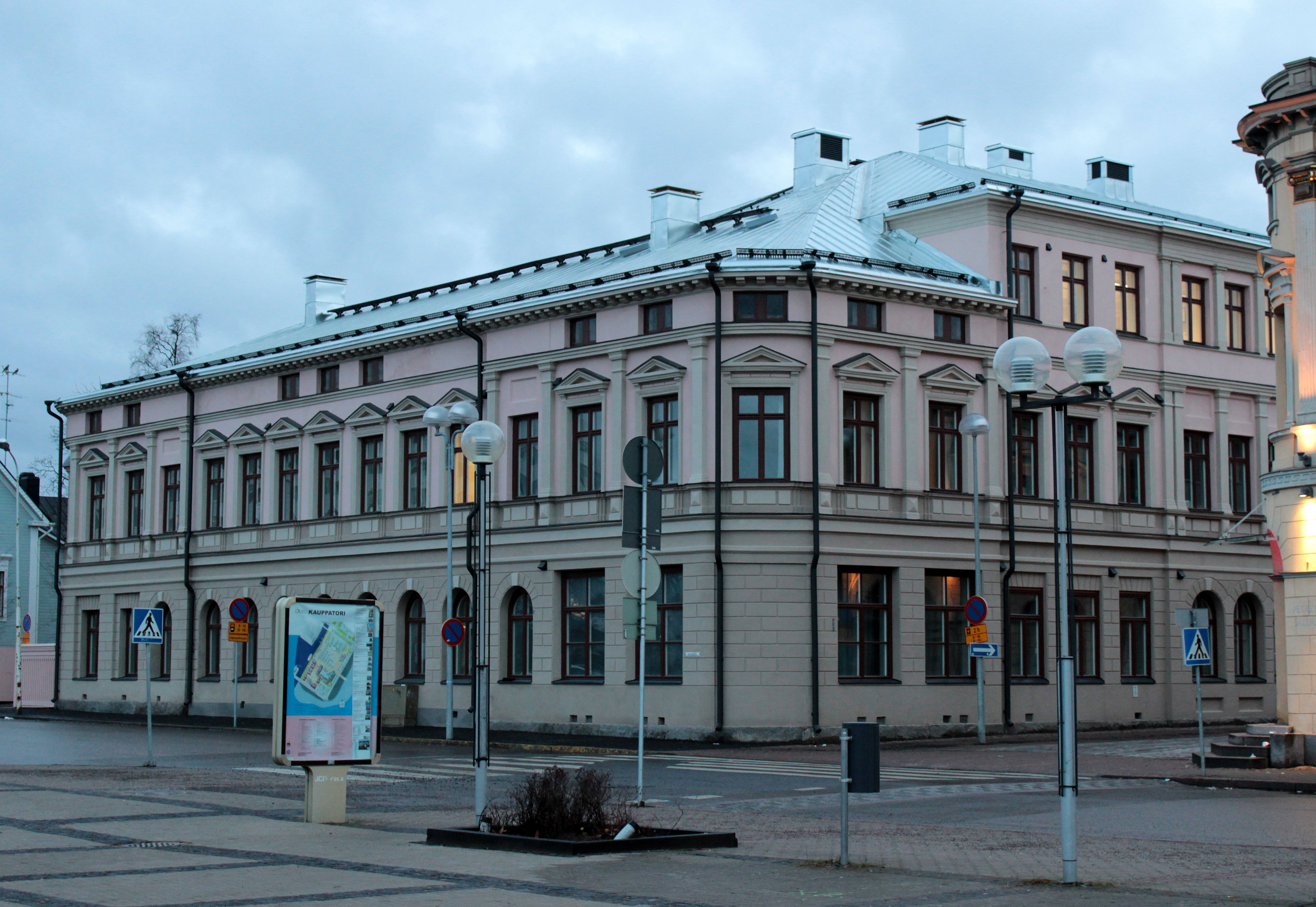 The main building of the Department of Architecture of the University of Oulu.